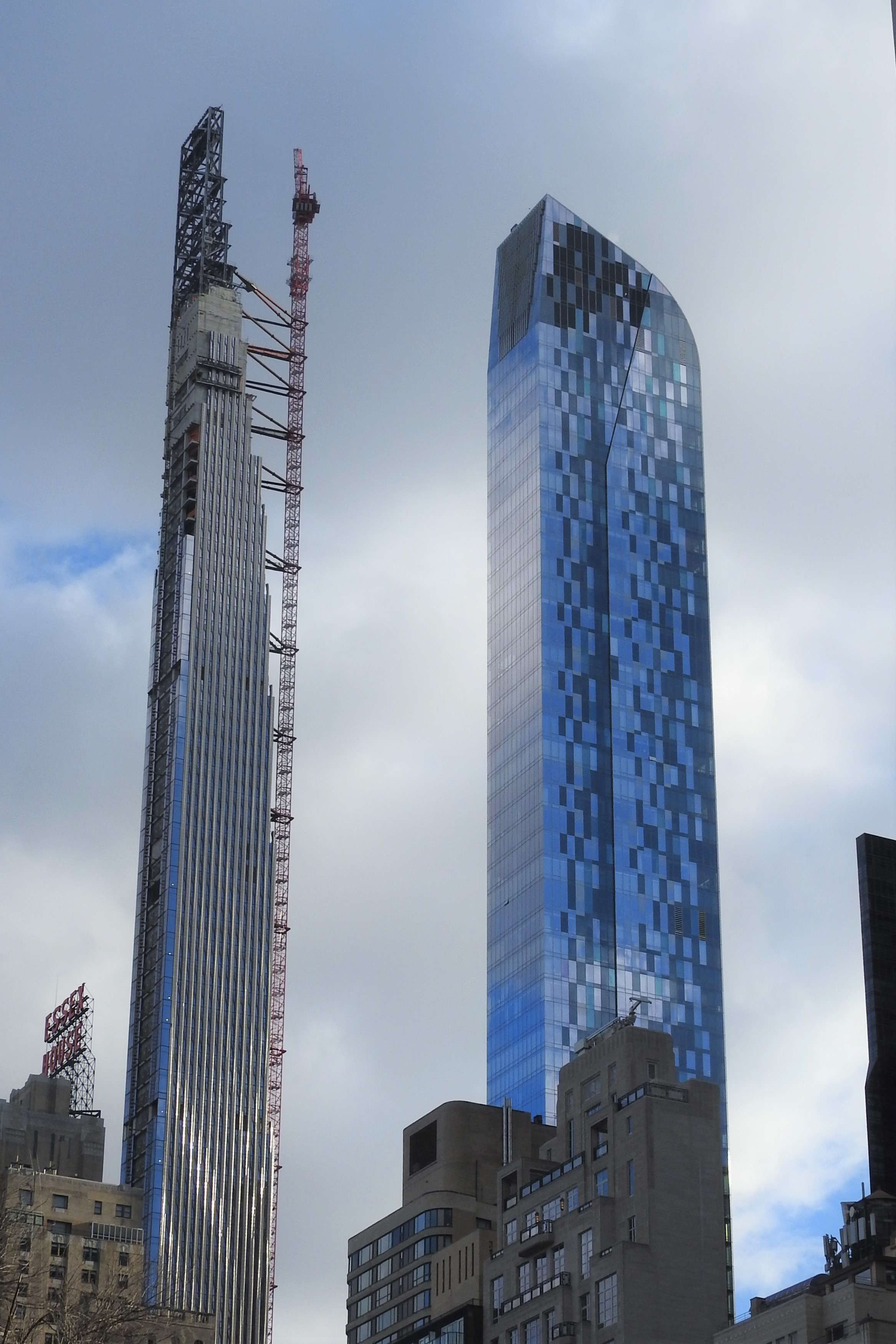 Looking southeast across Columbus Circle